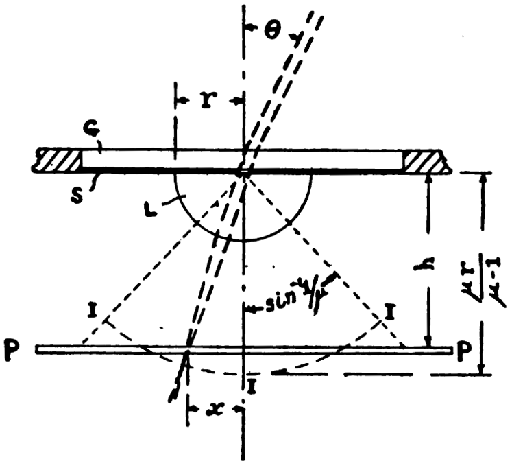 Figure 1 from Bond's paper describing an improvement to Wood's fish-eye pail apparatus of 1906. Original caption follows: The lens in its original form consists of a glass hemisphere L (fig. 1) of radius r. The light is incident on the plane face, which is covered by a thin screen S, except for a small circular aperture at the centre. It will be seen that a ray incident in the plane of the outer face of the lens will be refracted at the critical angle. Furthermore, all refracted rays will arrive almost normally at the hemispherical face of the lens, and will subsequently converge to form an image, which, for objects at infinity, will lie on part of a sphere III, concentric with the hemispherical face of the lens and of radius rμ/(μ–1), where μ is the refractive index of the lens. The emergent cone of rays will in practice have a total angle of slightly less than 90°; and if the aperture in the screen S is small enough, the whole image will be sufficiently in focus on a flat plate PP placed at a distance from the plane face of the lens equal to the mean distance of the various portions of the true image III from this plane face. The screen S should be covered on the outer side by a plane plate of glass G, the whole being cemented together. This arrangement avoids the finite thickness of the screen S, preventing some or all of the light incident at fairly oblique angles from entering the lens. It will be seen that the photographic plate should be placed at a distance h from the plane face of the lens of about 2.5r (i.e. rather less than μr/(μ–1)).